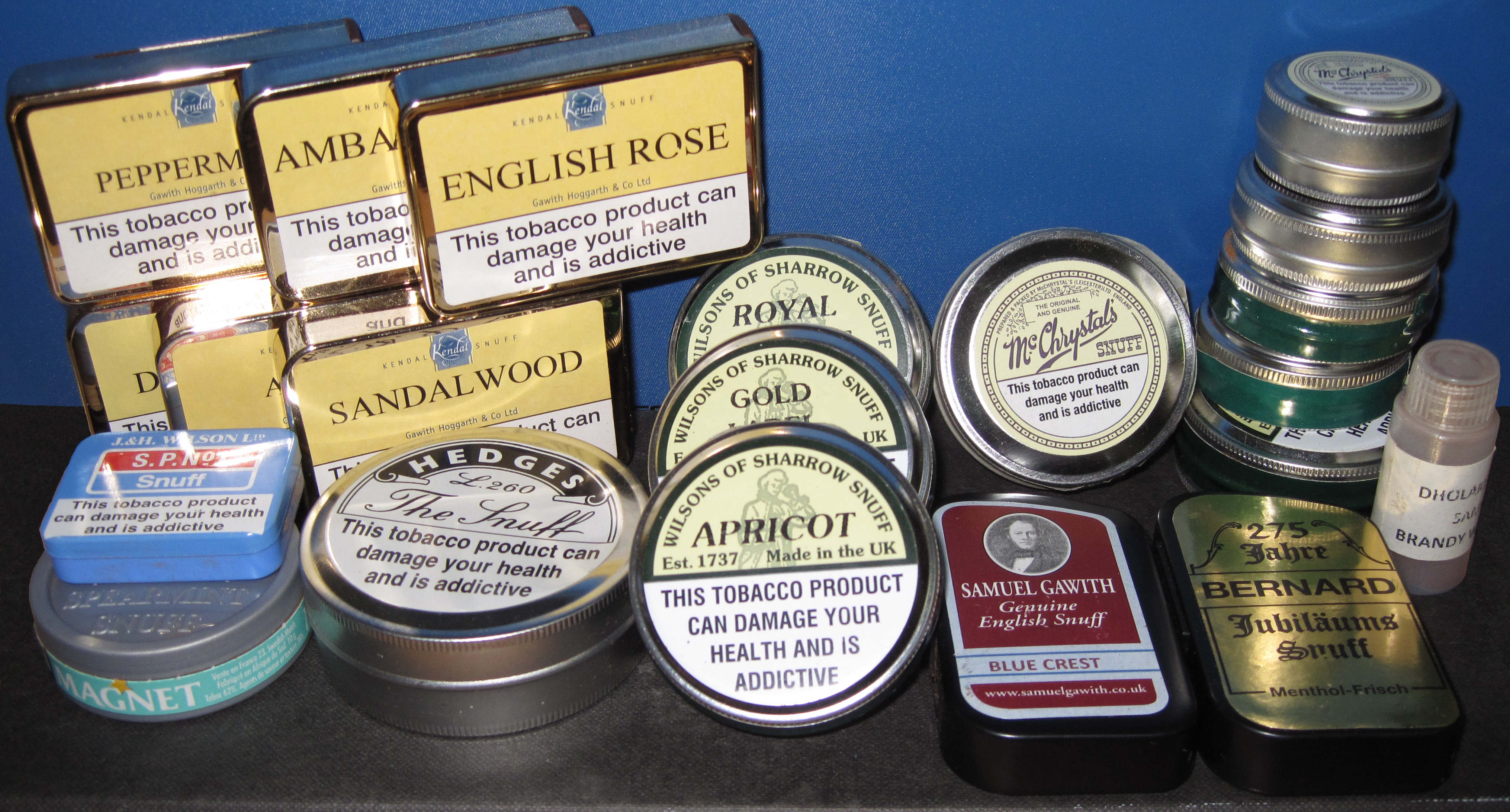 An assortment of (dry-nasal) snuff.